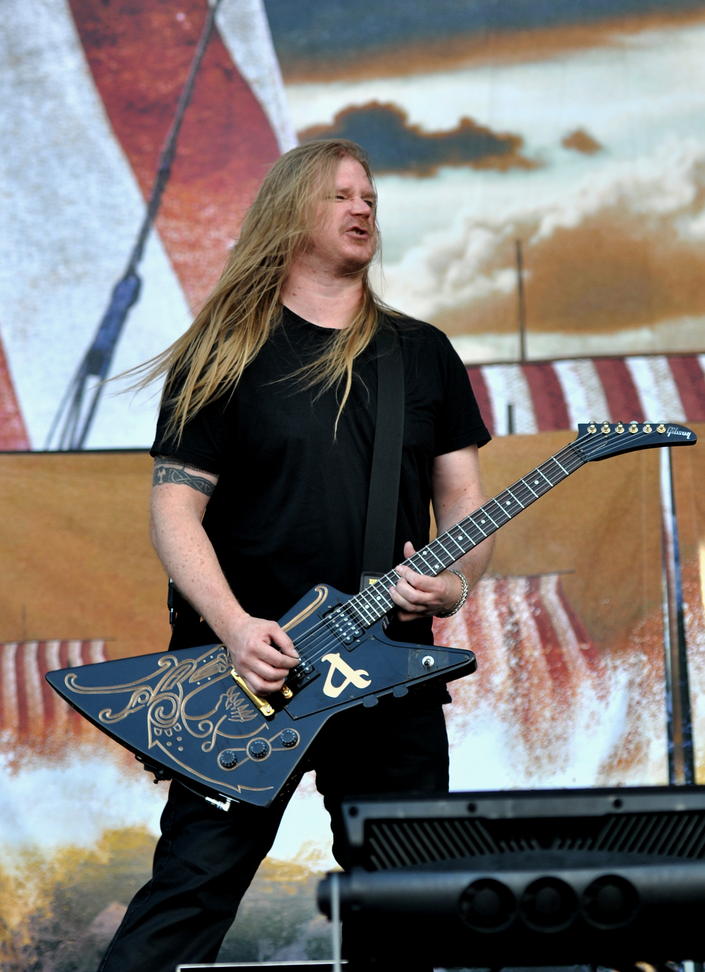 Amon Amarth at Rock am Ring 2013